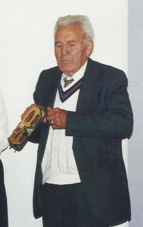 Hernán Nano Nuñez Oyarce. Creador de la Cueca Brava